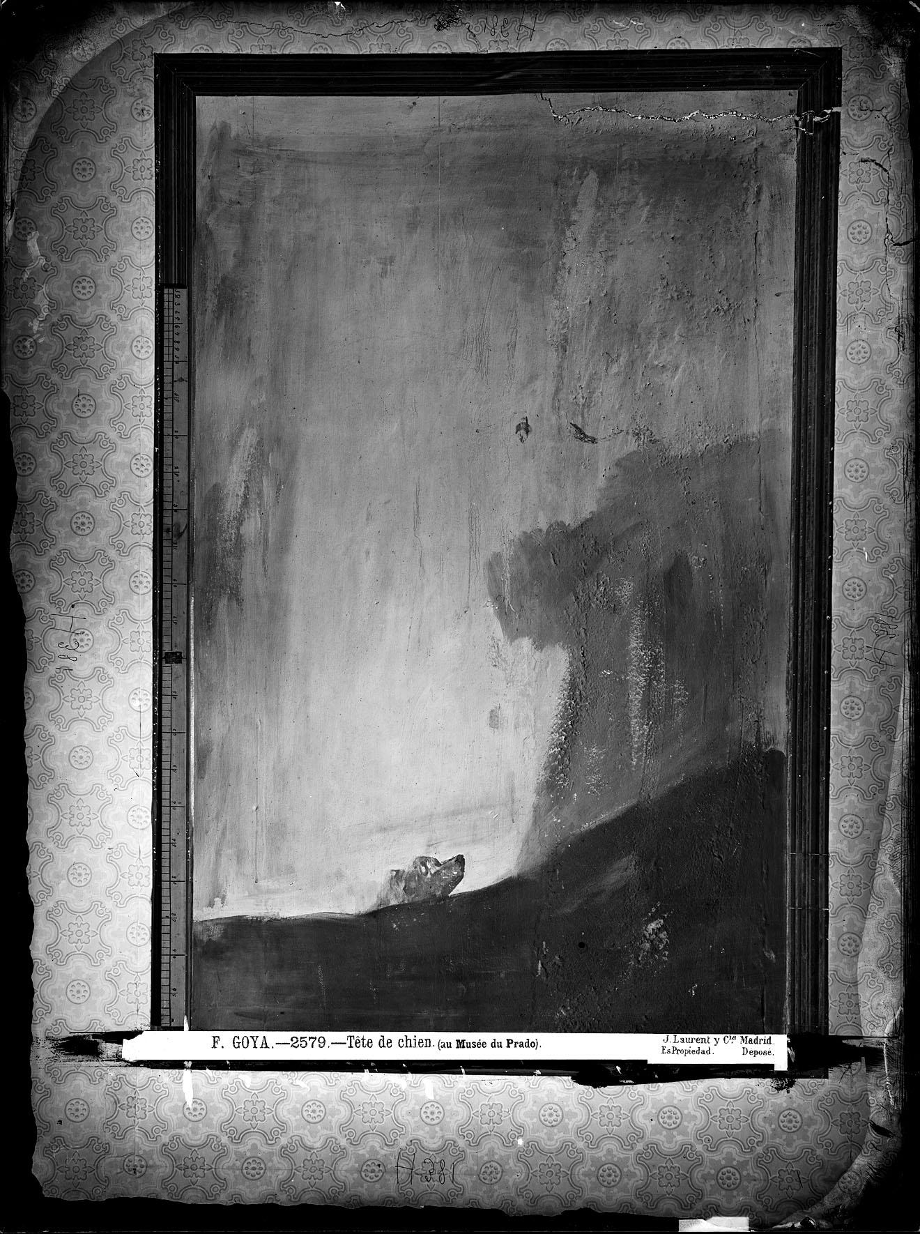 "The Dog", in 1874, at the Quinta de Goya. Photo by J. Laurent, on the wall of the old house of Goya. Series of Black Paintings, before being transferred to canvas. The Dog is the name usually given to a painting by Spanish artist Francisco Goya, now in the Museo del Prado, Madrid. The image was obtained by scanning the original glass negative, wet collodion, format 27 x 36 centimeters, which is preserved in the Archives Ruiz Vernacci. IPCE Photo Library. Madrid. Possibly, Laurent photographed "The Dog" with electric light.